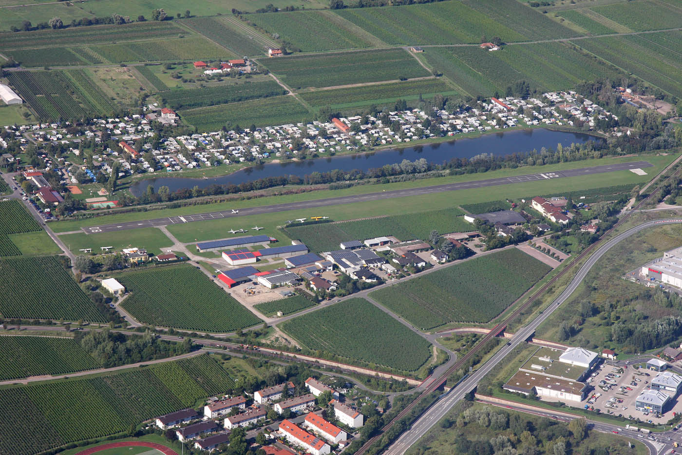 Airport Bad Dürkheim